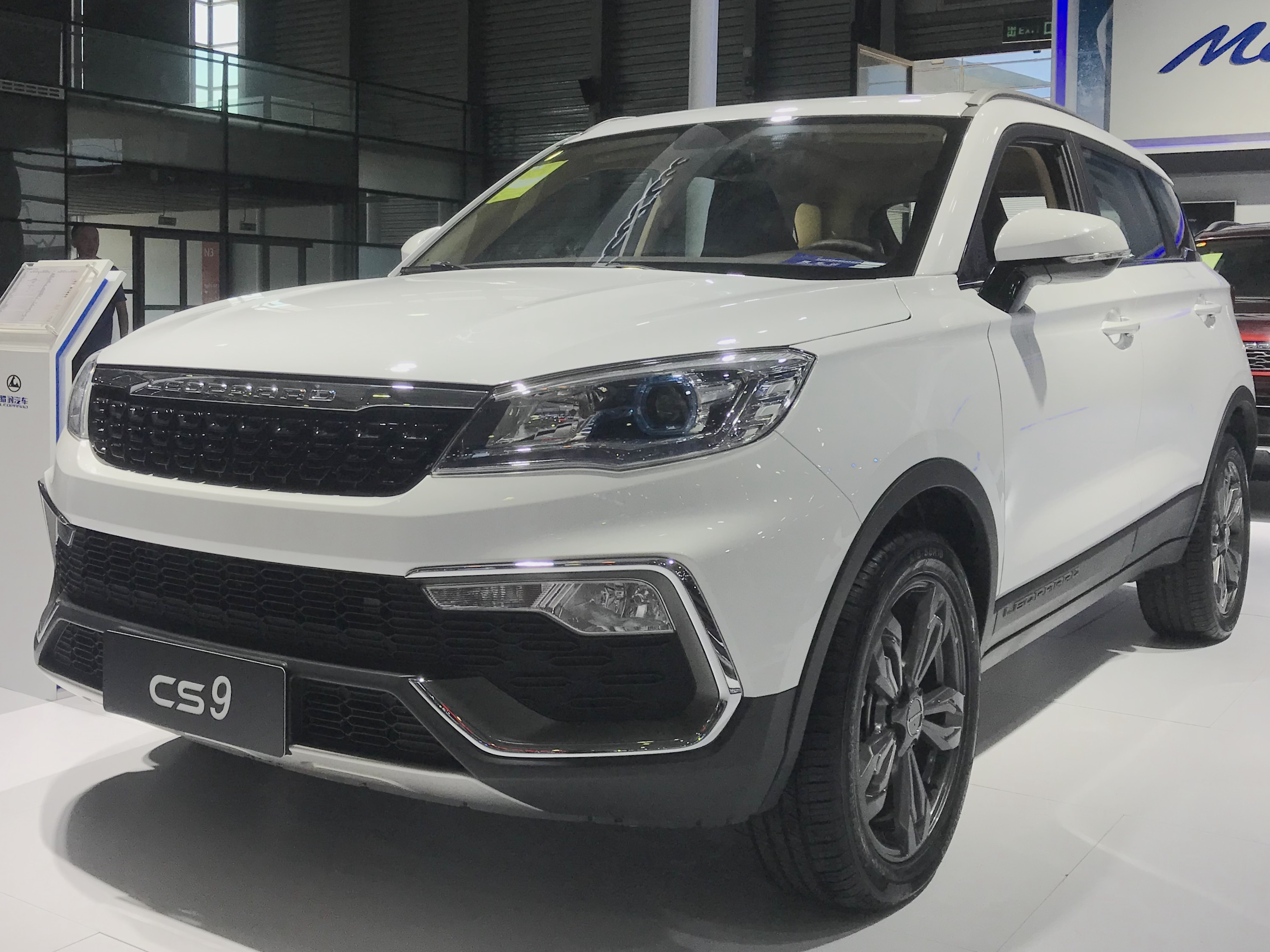 Mattu CS9 front